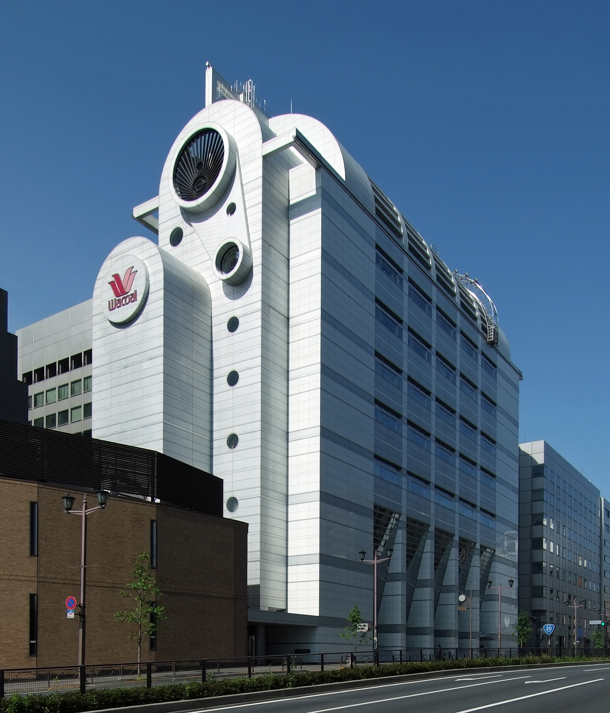 Wacoal Kōjimachi Office, Kōjimachi Tokyo Japan, design by Kisho Kurokawa in 1984. Photo Edited by Photoshop.